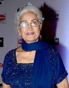 Kamini Kaushal snapped at the 61st Filmfare Awards